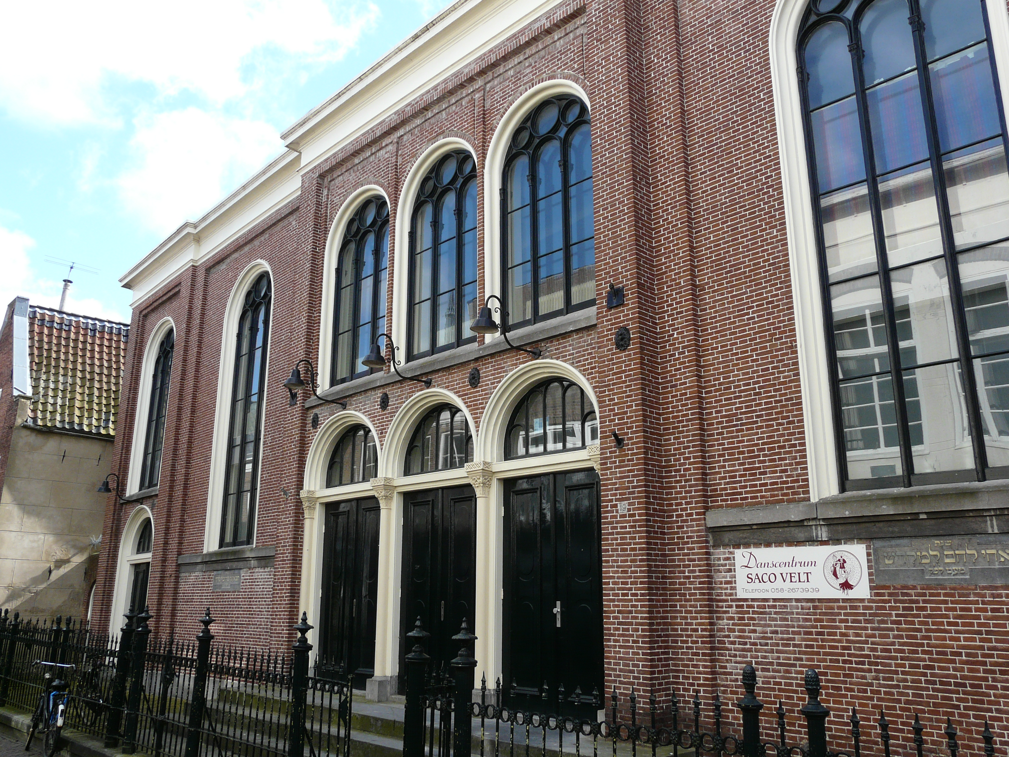 Former synagoge Leeuwarden, Friesland, The Netherlands